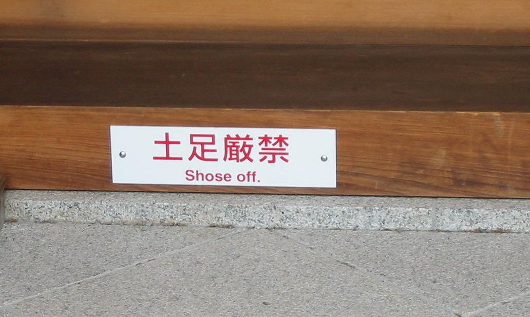 Shose off ipv. Shoes off